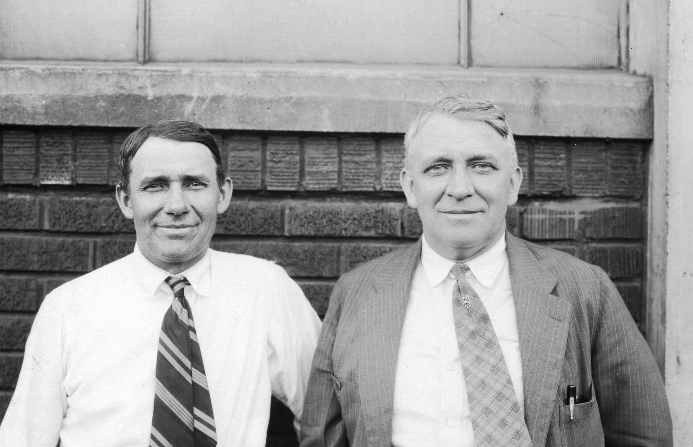 Brothers August (Augie) and Fred Duesenberg.